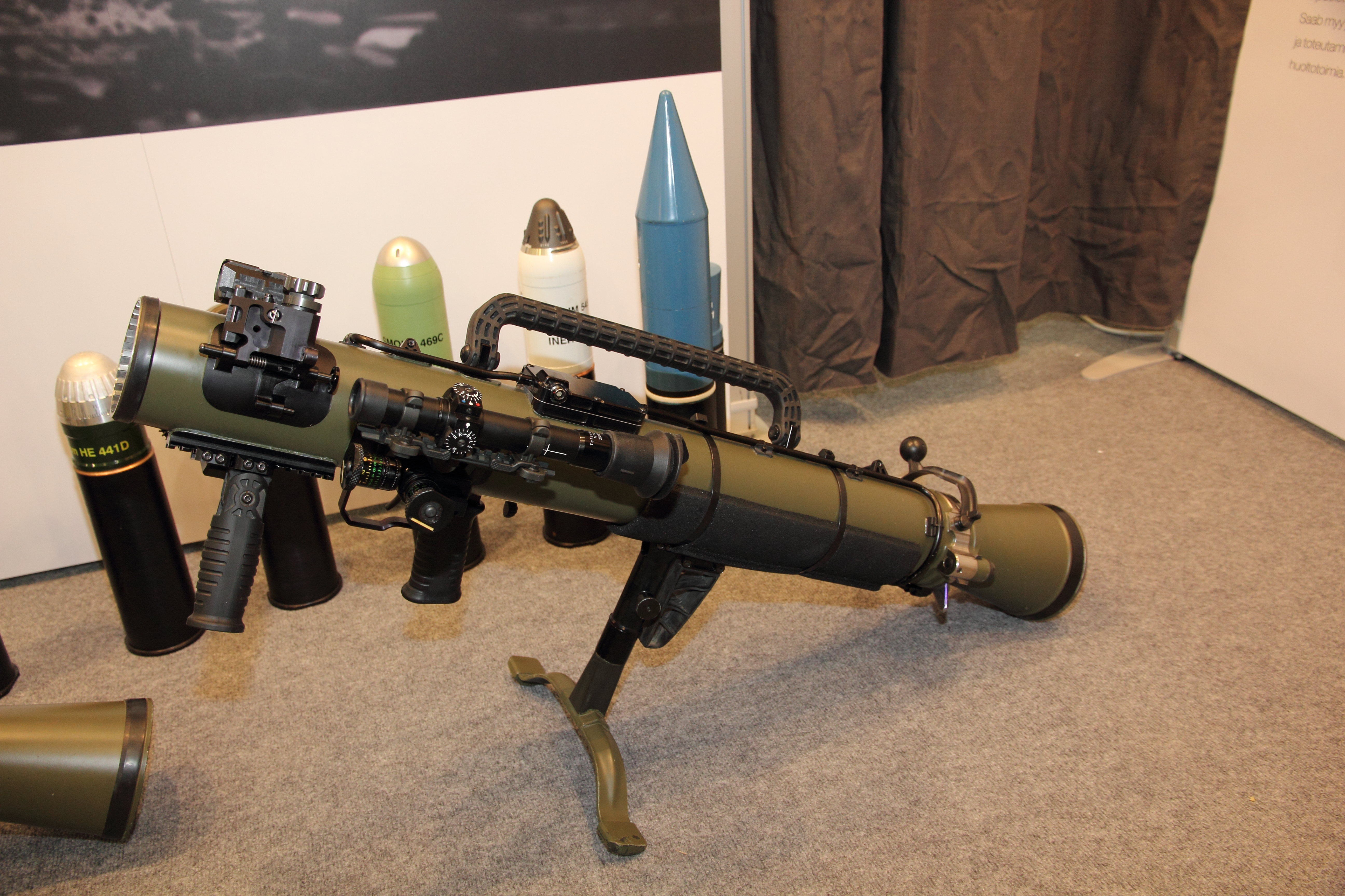 Carl Gustav M4 anti-tank rocket at Bofors exhibition stall at Comprehensive security exhibition 2015 in Tampere.